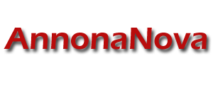 Annonanova, sucks